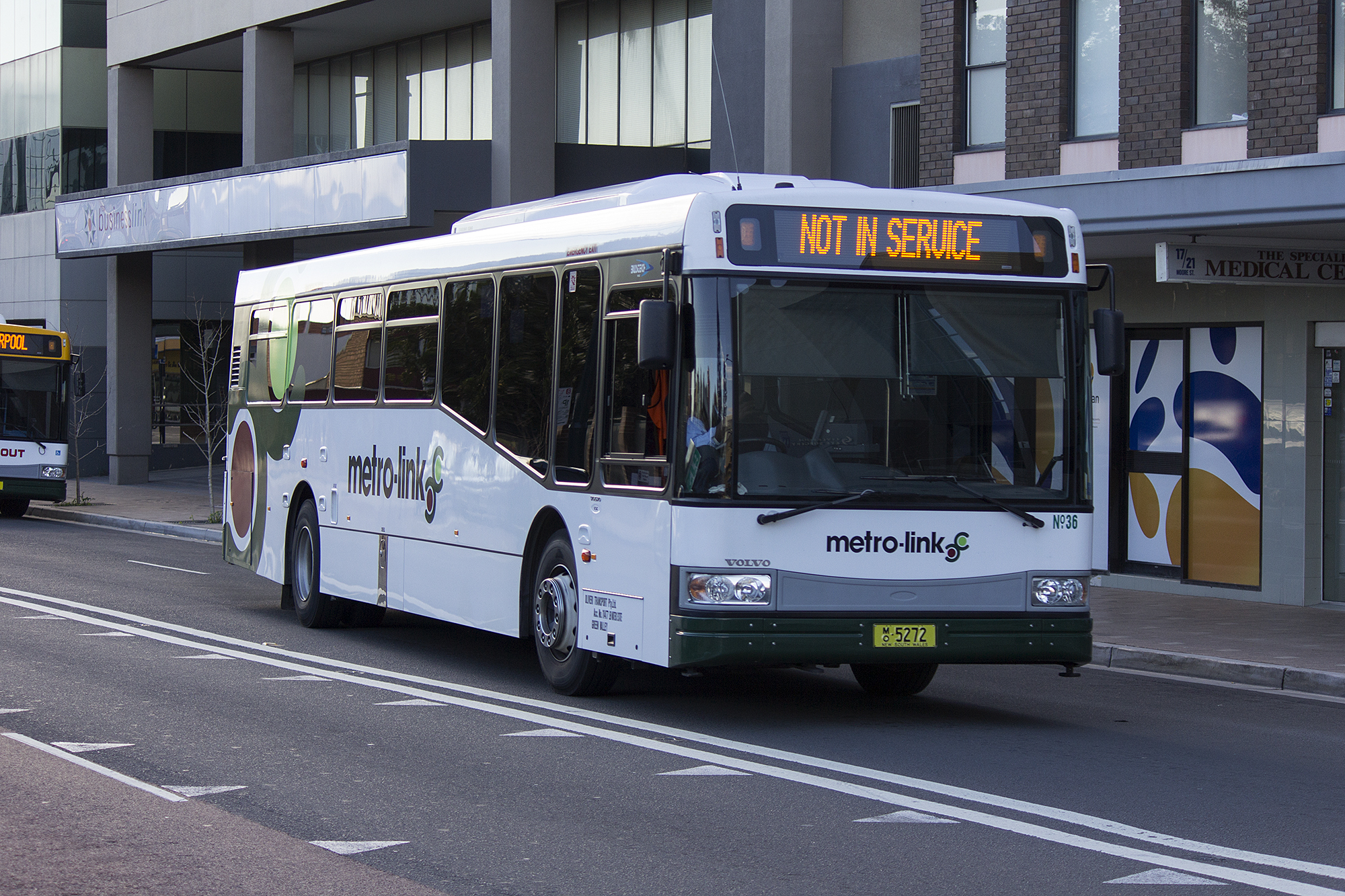 Metro-link Bus Lines (mo 5272) Bustech 'VST' bodied Volvo B7RLE on Moore Street in Liverpool, New South Wales.